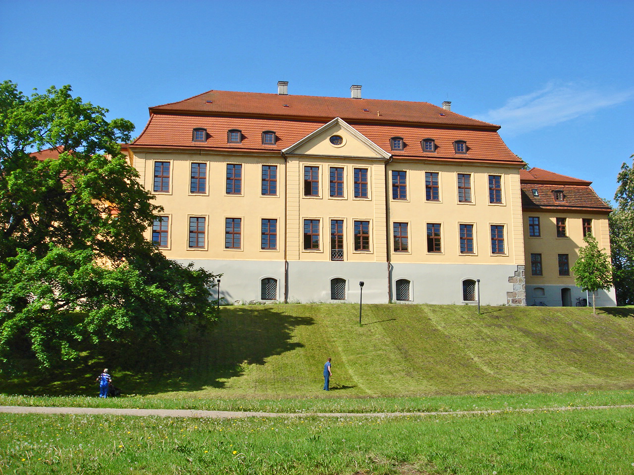 Baroque castle of Stavenhagen in Mecklenburg-Vorpommern, Germany. Built in 1740, modified in 1890.